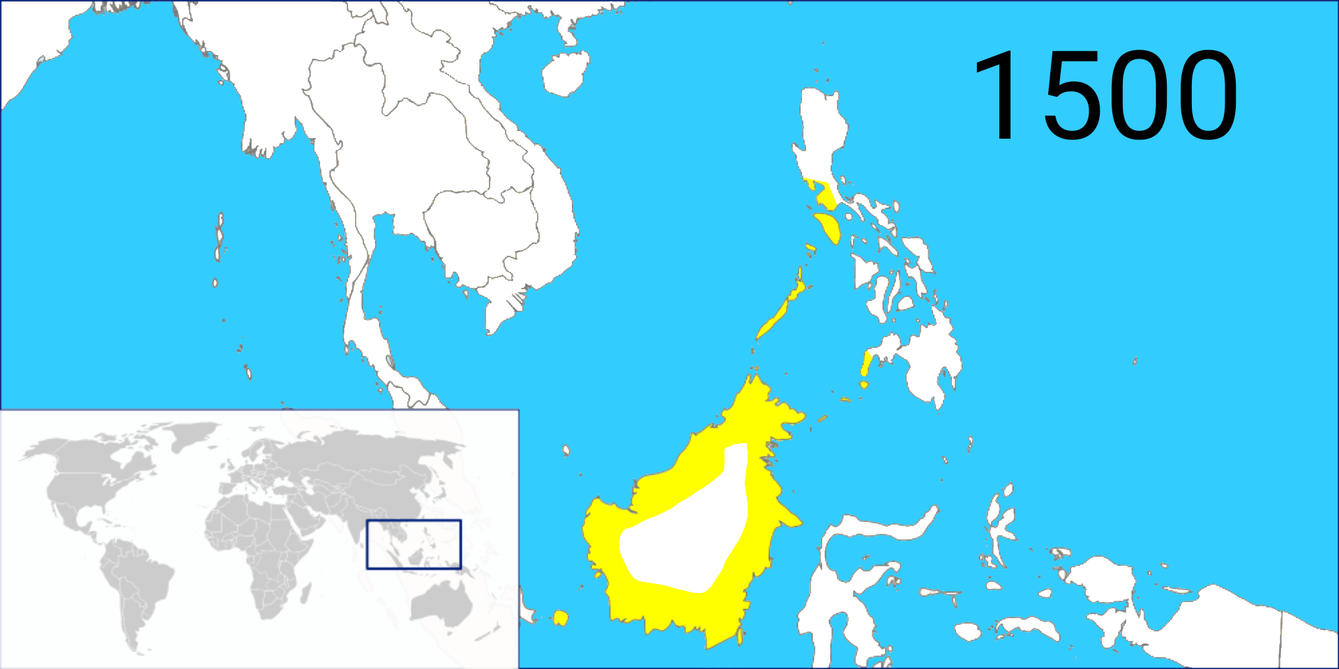 Brunei territories in 1500.